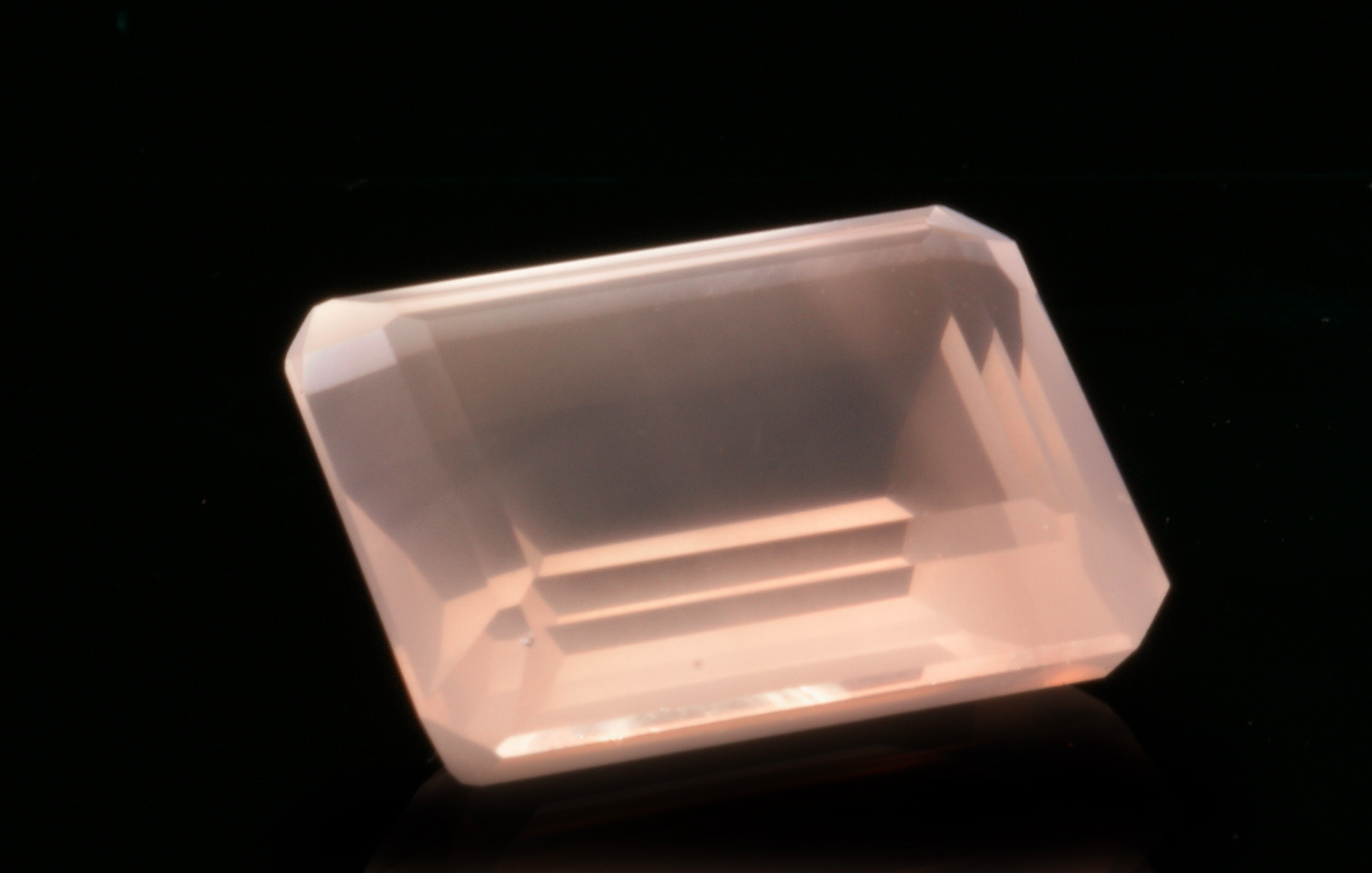 Rose Quartz - Minas Gerais Brasil - (2x1.5cm)